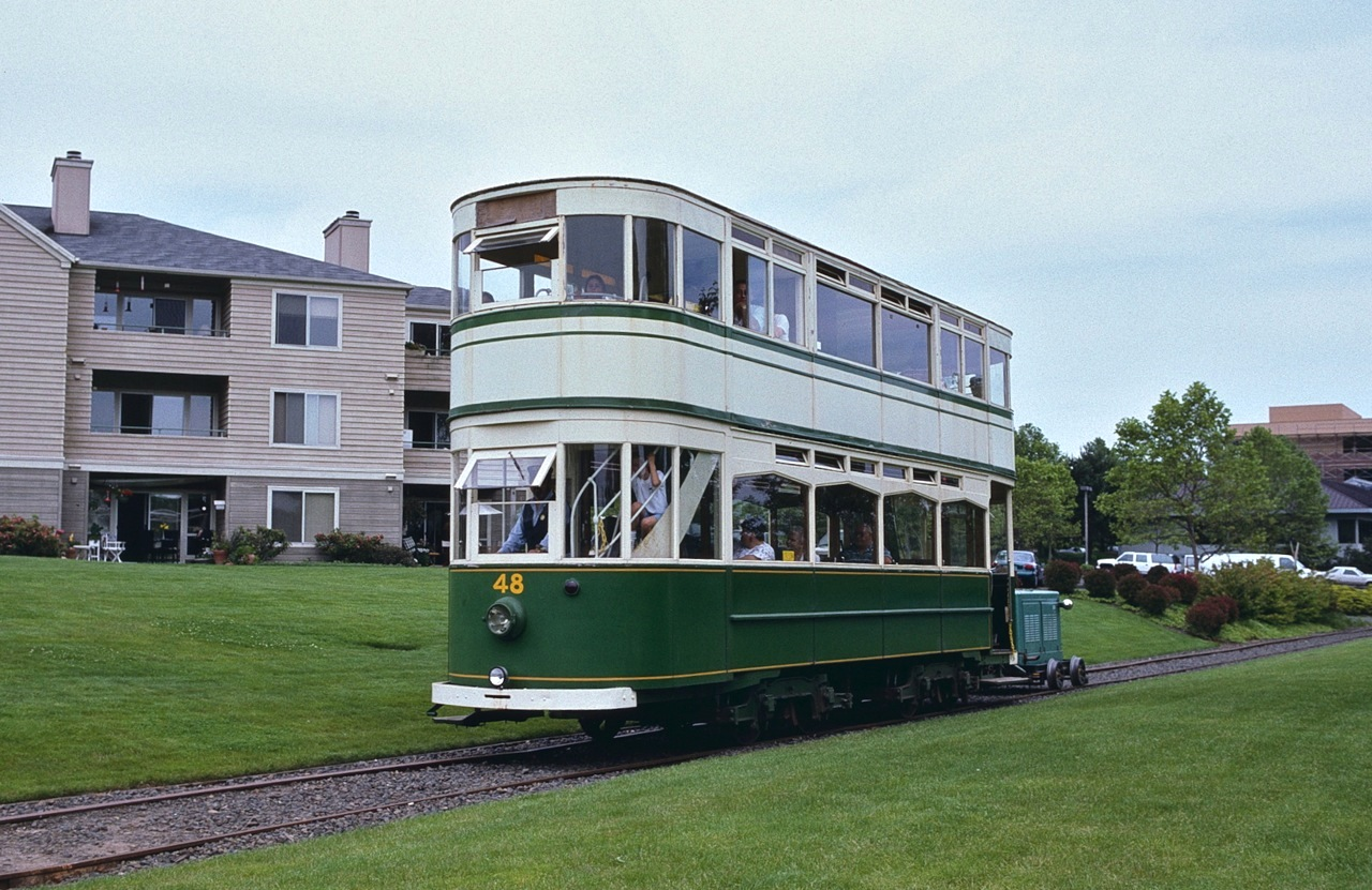 Blackpool 48, a 1928 double-deck streetcar (tram) from England, operating on the Willamette Shore Trolley heritage streetcar line, between Portland, Oregon and Lake Oswego, Oregon, in 1996. It is pictured southbound in the Johns Landing neighborhood of Portland. The ex-Southern Pacific Railroad track does not have overhead trolley wires, so the electricity to power the streetcar comes from a generator it is towing on a trailer. Car 48 was in use on the WST line in fall 1987 and then again from November 1995 until 2006 (but not in regular use after 2003). In 2006, it was moved to the Oregon Electric Railway Museum, in Brooks, Oregon.